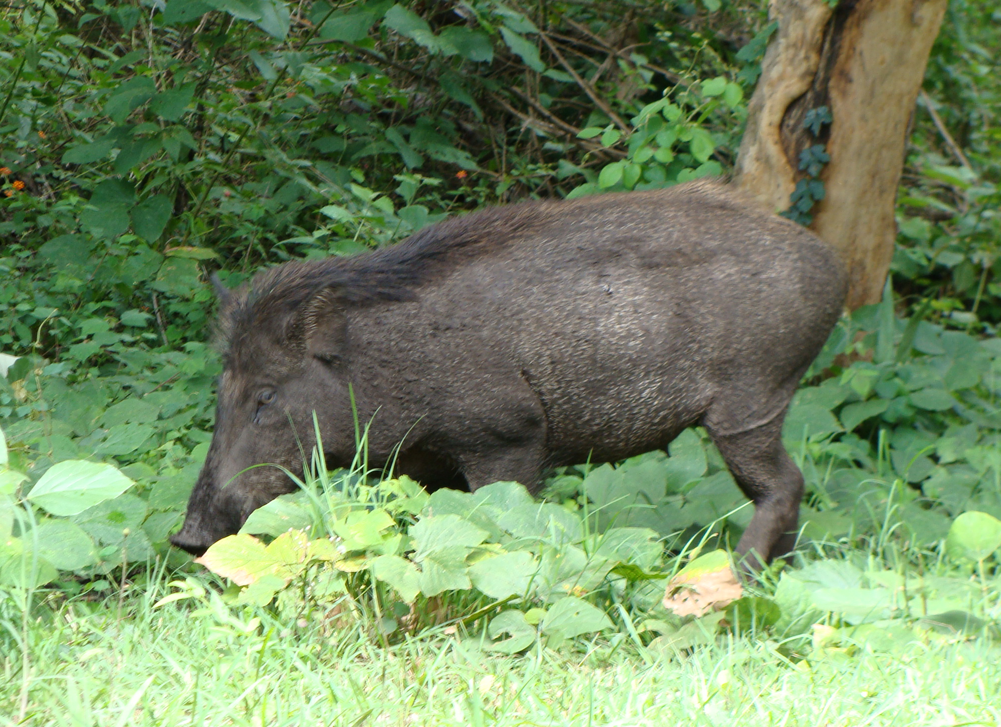 Indian Wild Boar (Sus scrofa cristatus) in Mudumalai National Park, Tamil Nadu, India. It sits on the road from Udhagamandalam (Ooty) to Mysore.